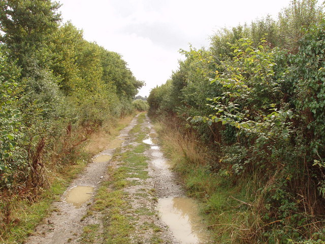 Saints' Way footpath at Trenance. This is a 30 mile trail from Padstow to Fowey. See Padstow website